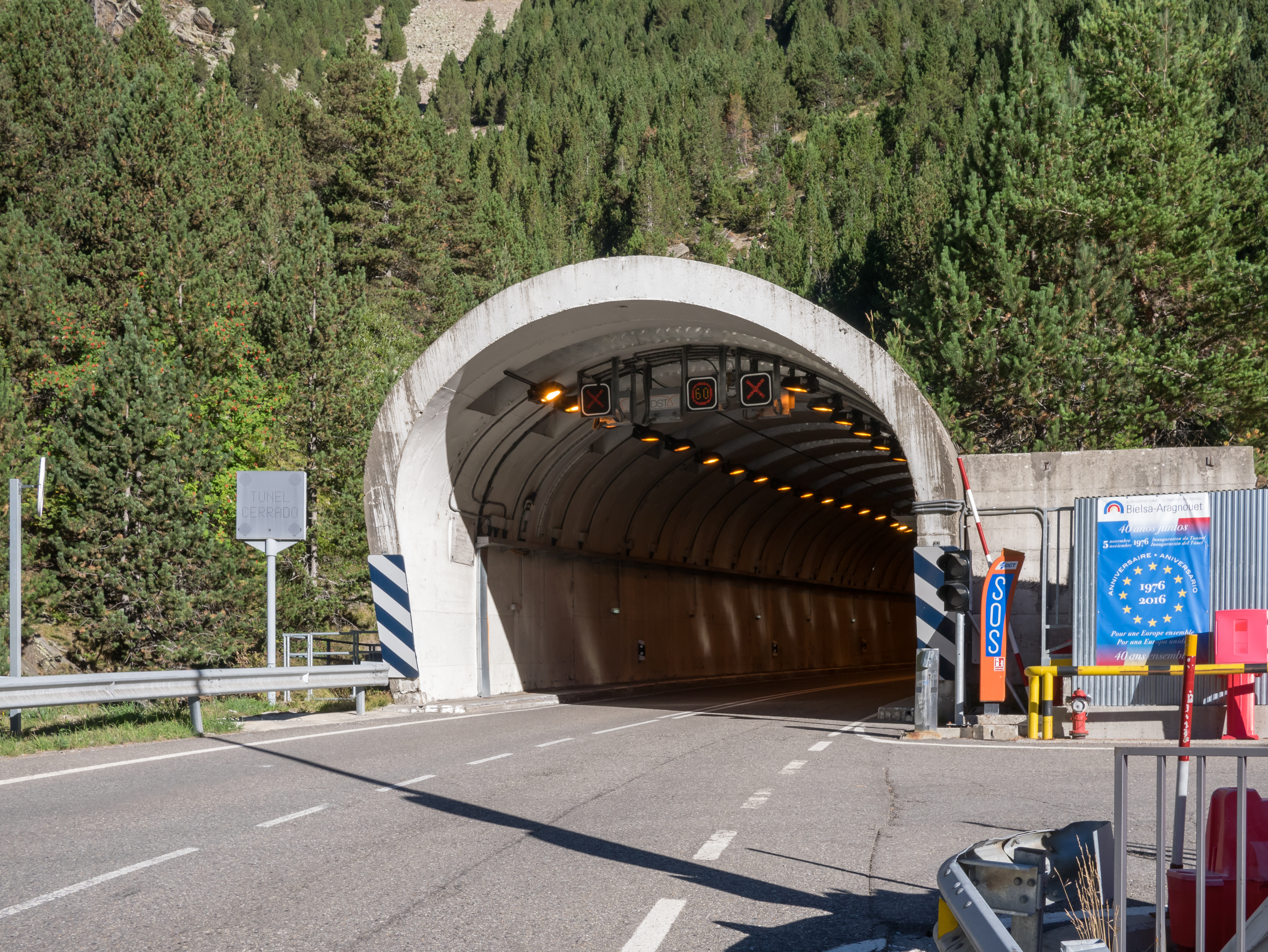 South end of the Bielsa-Aragnouet Tunnel. Sobrarbe, Aragon, Spain